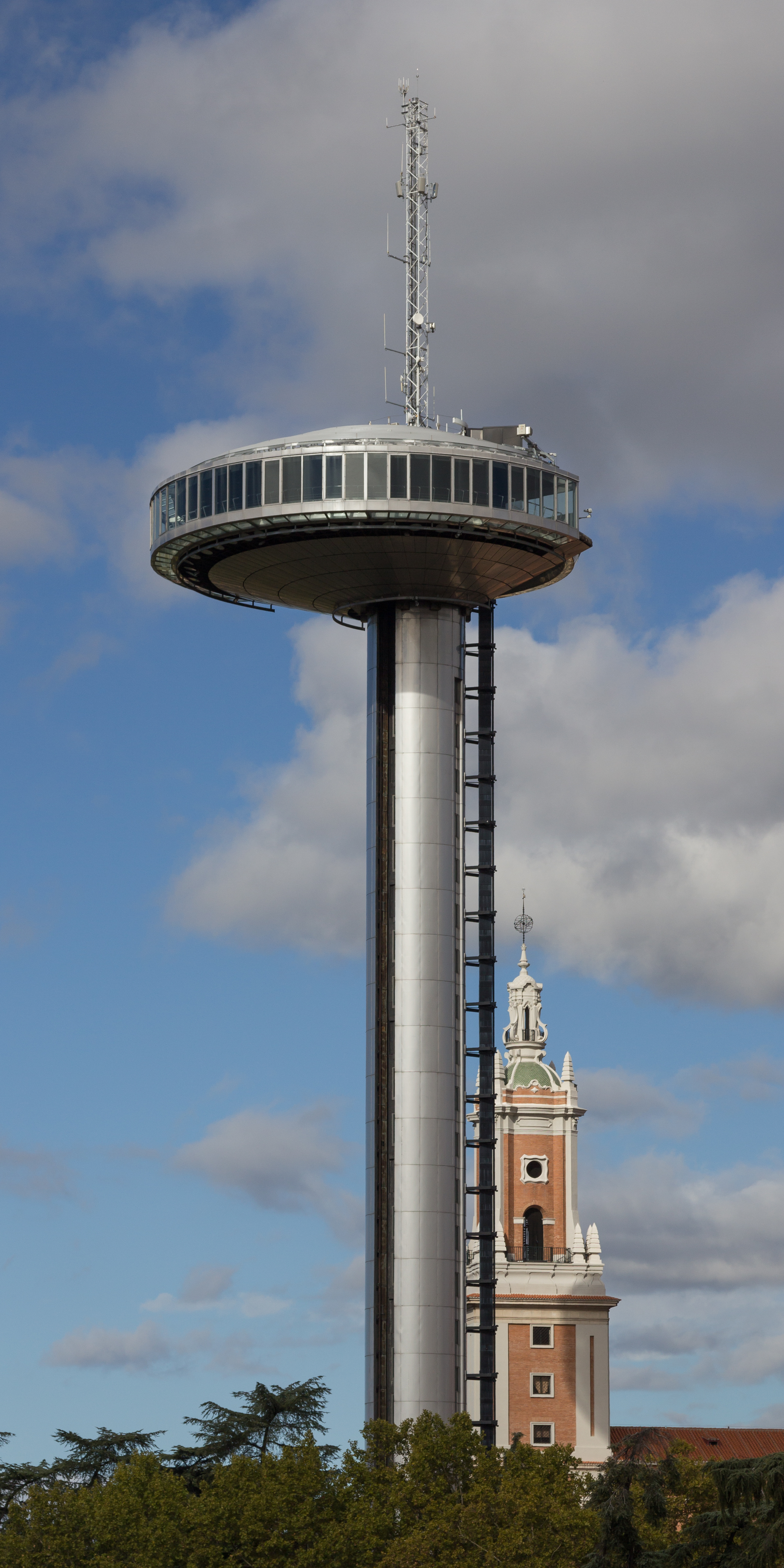 Faro de la Moncloa, Madrid, Spain.